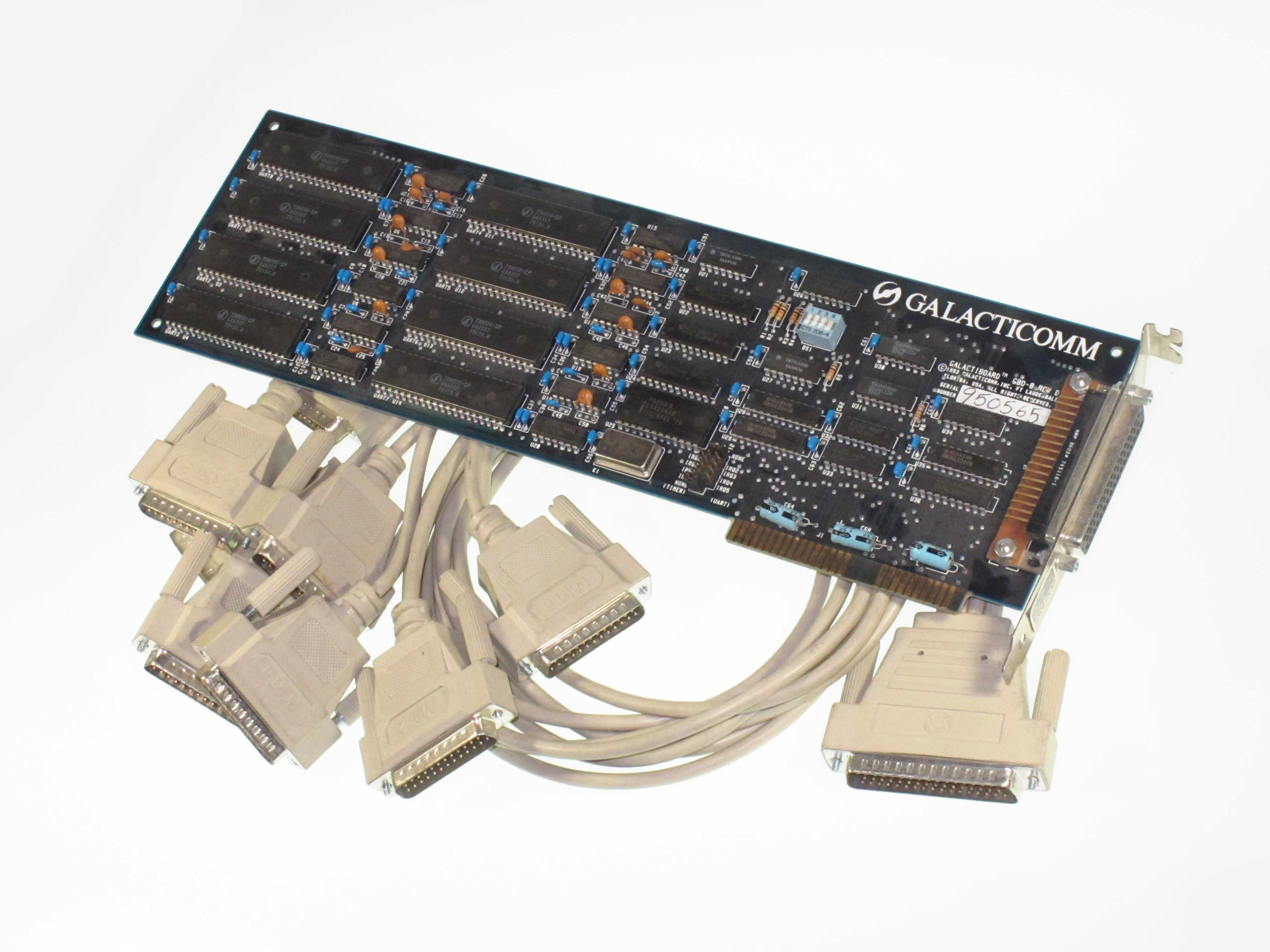 Galactiboard - an 8 port serial interface card produced in the 1990's by Galacticomm Inc. to support their MajorBBS software